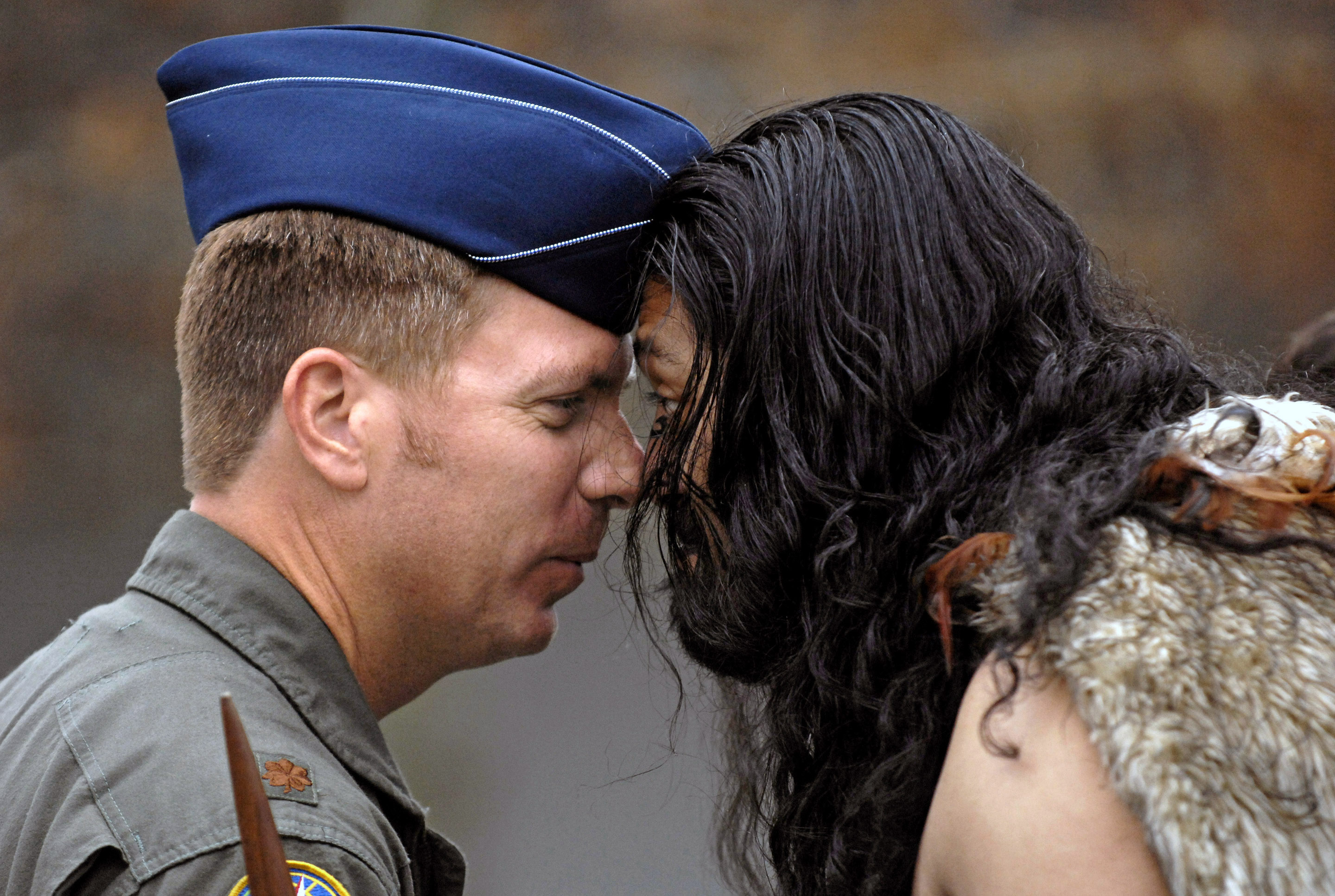 Maj. Bill Eberhardt touches noses (Hongi) with a Maori warrior during a Powhiri, or welcoming ceremony, at Christchurch, New Zealand. Airmen from McChord AFB, Wash., are at Christchurch to begin the annual winter fly-in supporting the Antarctic program at McMurdo Station, Antarctica.